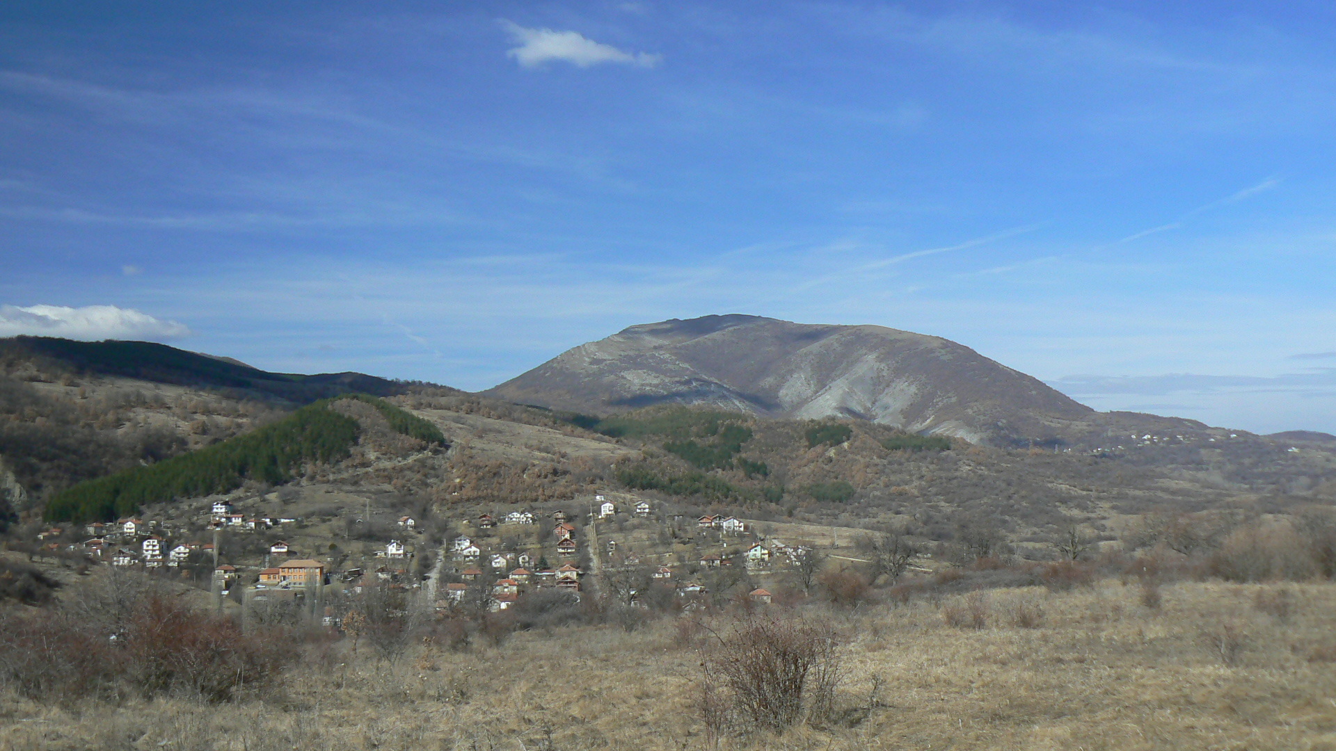 Village Mala Fucha in the folds of Konyavska planina (Konyavska mountain) in Bulgaria